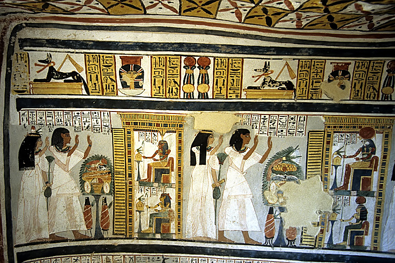 Tomb of Roy, Amenemopet and wife adore Nefertum and Maat, Roy and wife adore Re-Harachte and Hathor, TT 255, Dra' Abu el-Naga, Luxor West Bank, Egypt